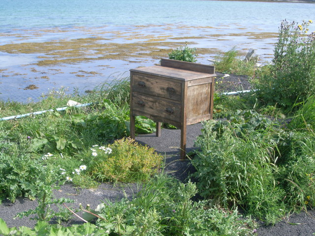 A strange place to leave a dresser This dresser (minus chair) was just sitting by the bay at Pierowall